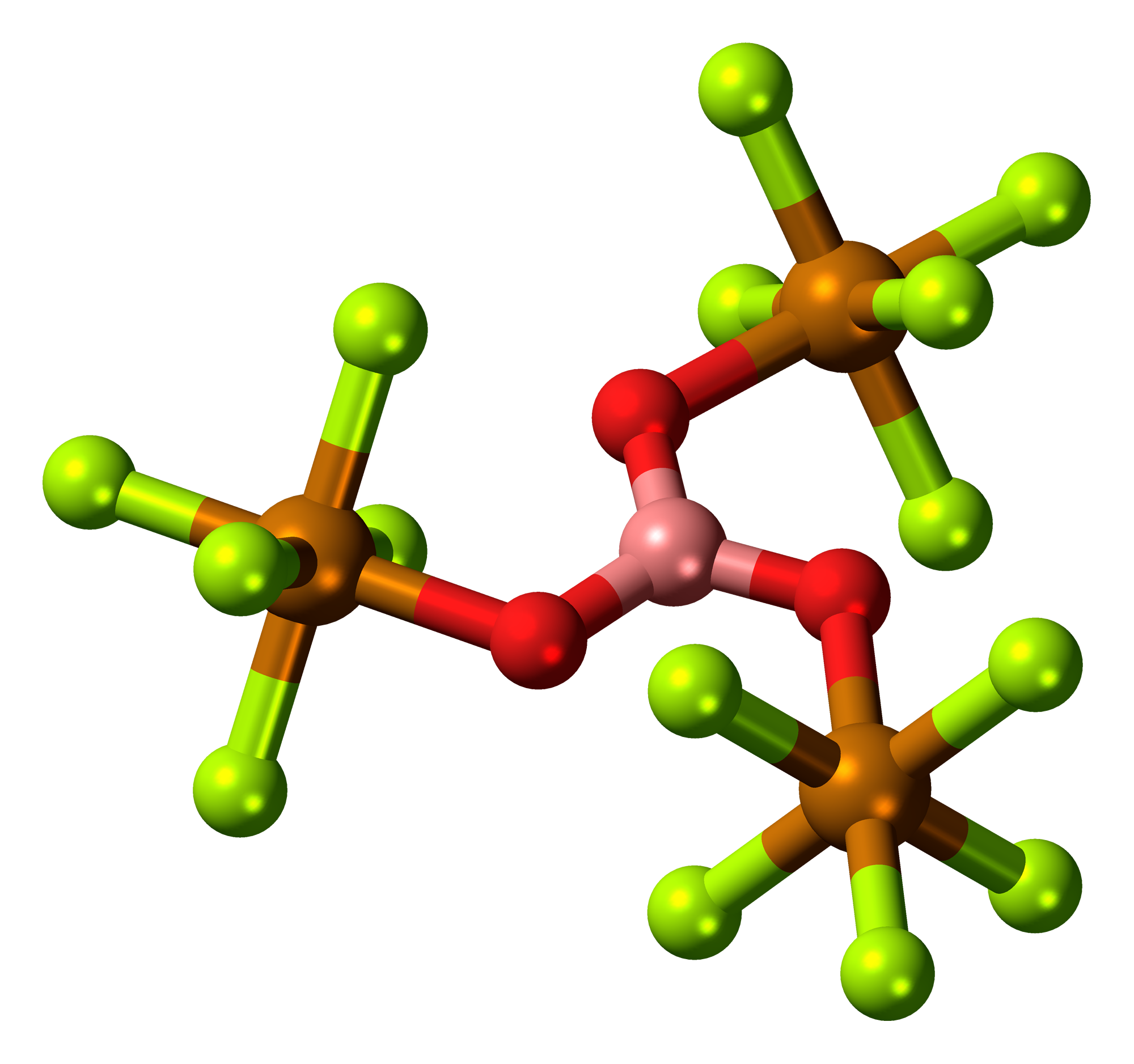 Ball-and-stick model of the boron teflate molecule, a compound derived from teflic acid. Colour code: Oxygen, O: red Boron, B: pink Yellow-green: Fluorine, F Tellurium, Te: brown